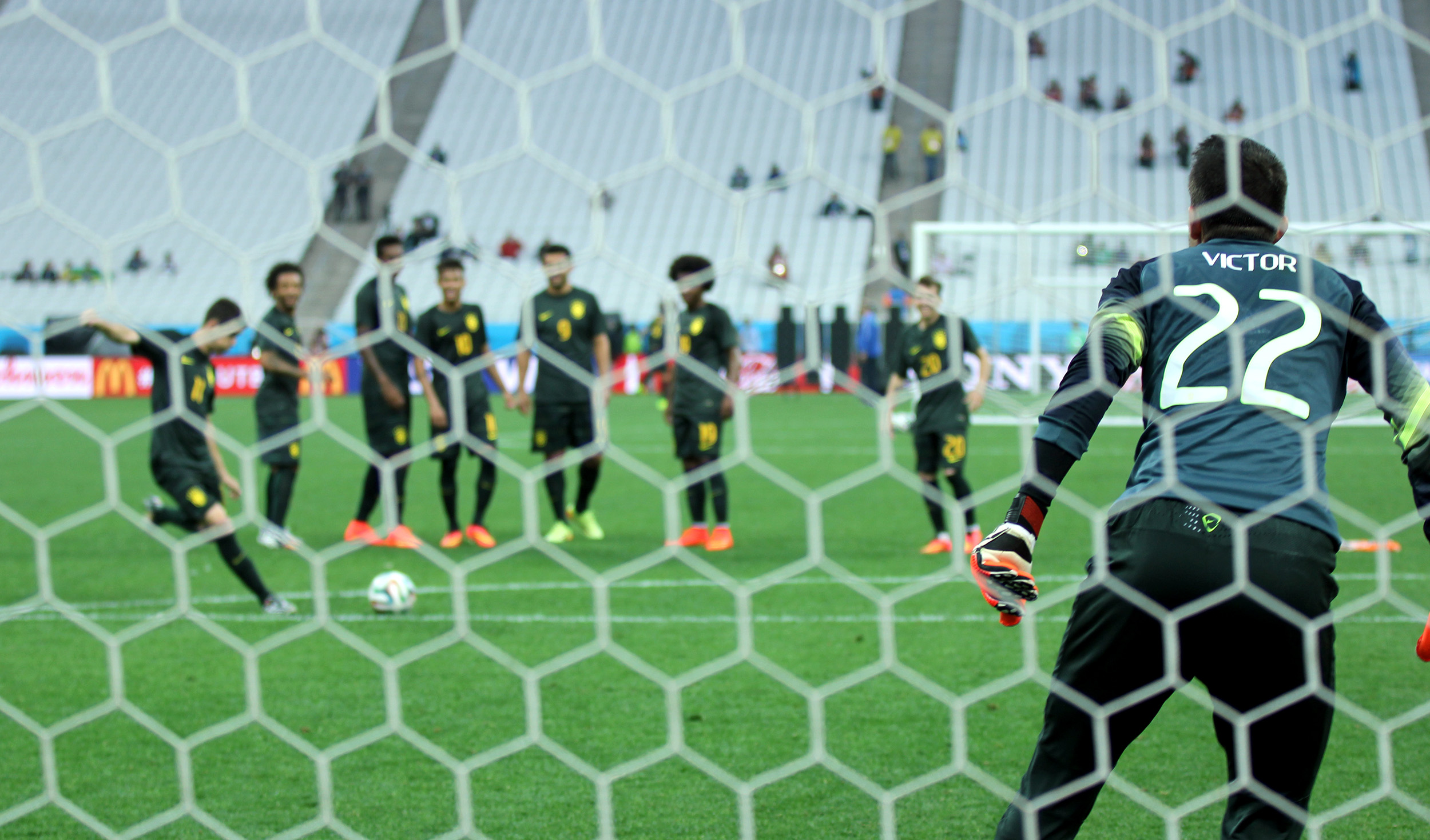 Brazil national team training for 1 day before the start of the first game of the 2014 World Cup qualifier against Croatia 2014-06-11